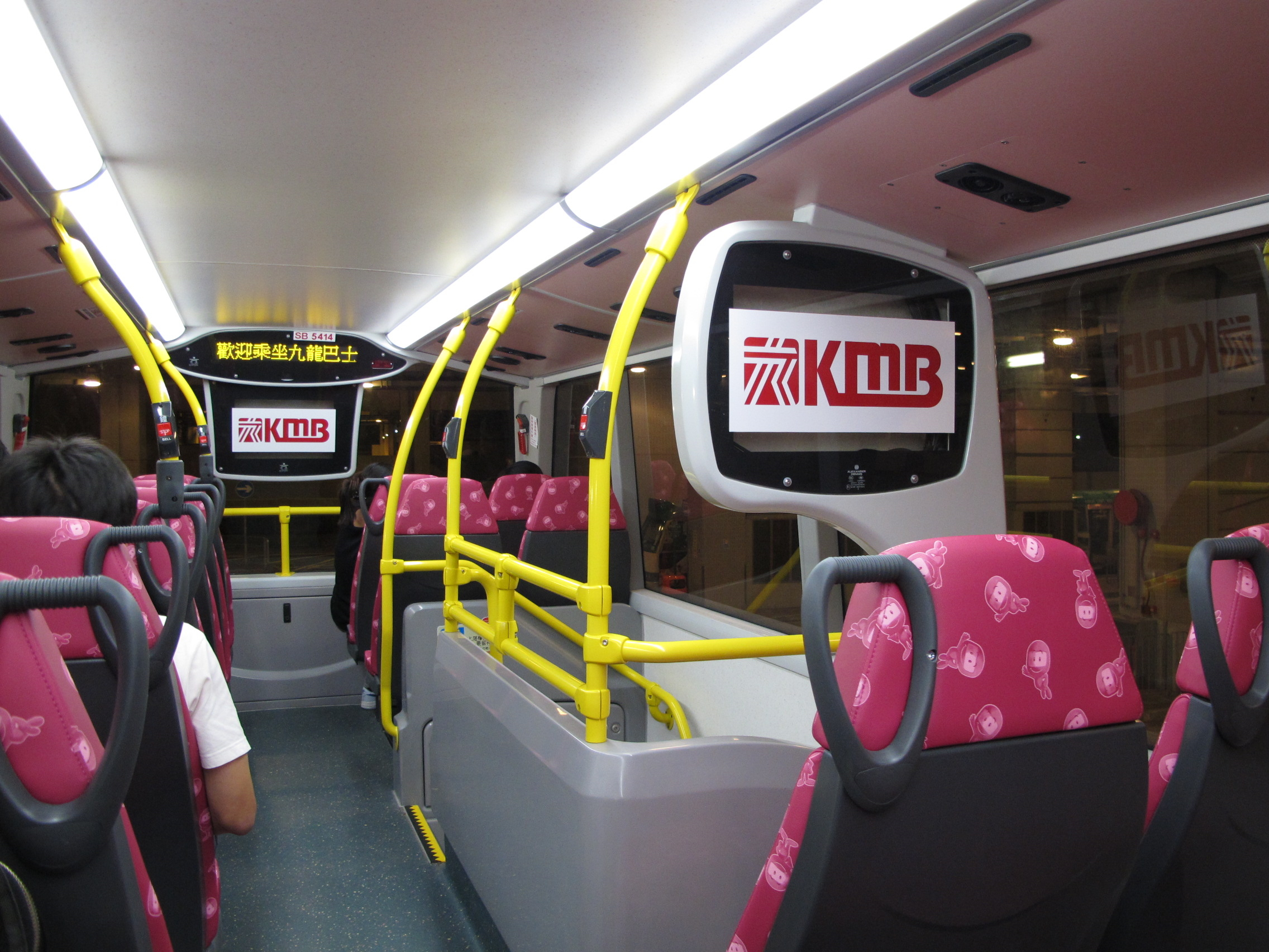 Roadshow TV reserved SB5414